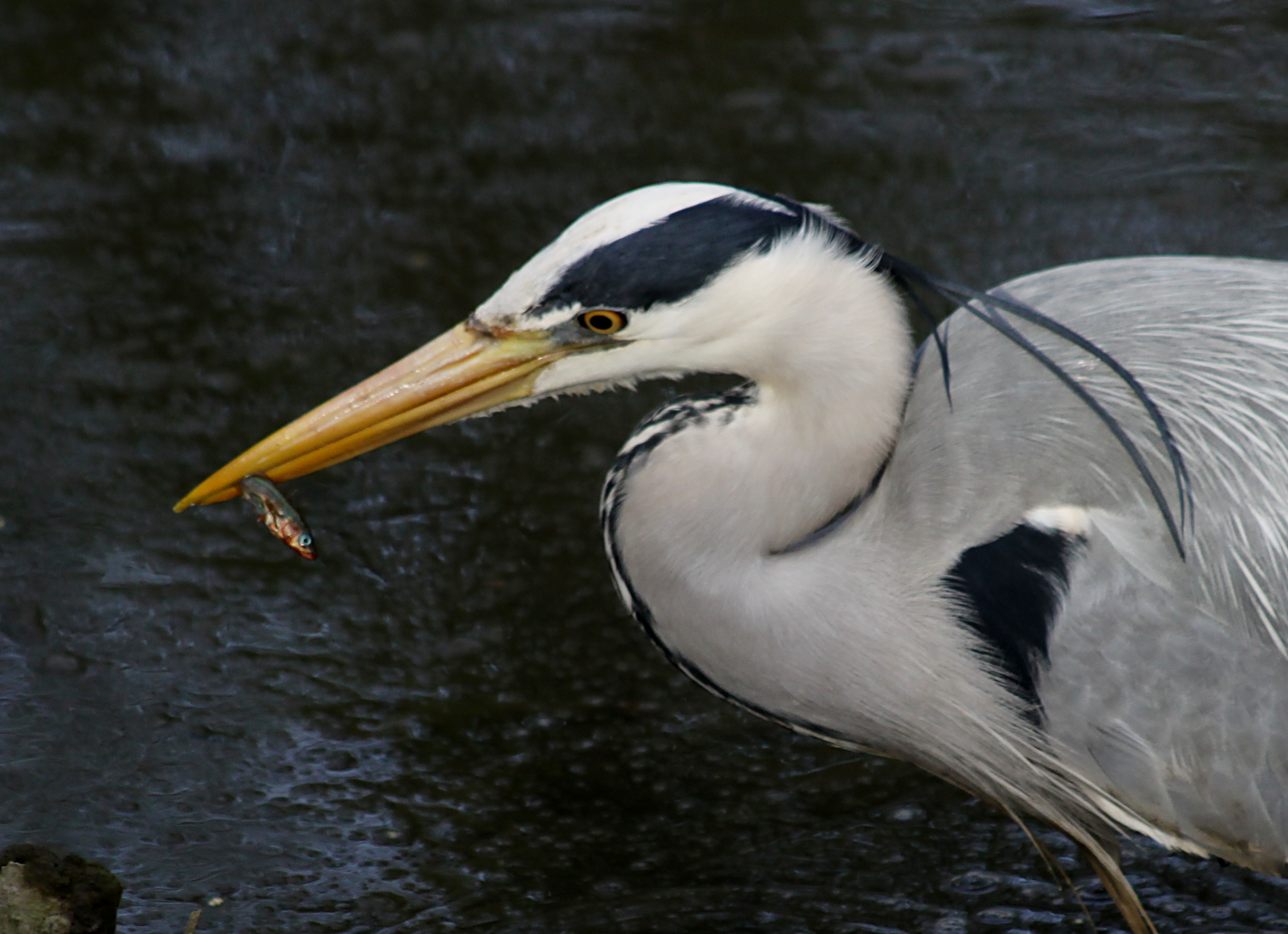 Ardea cinerea with prey